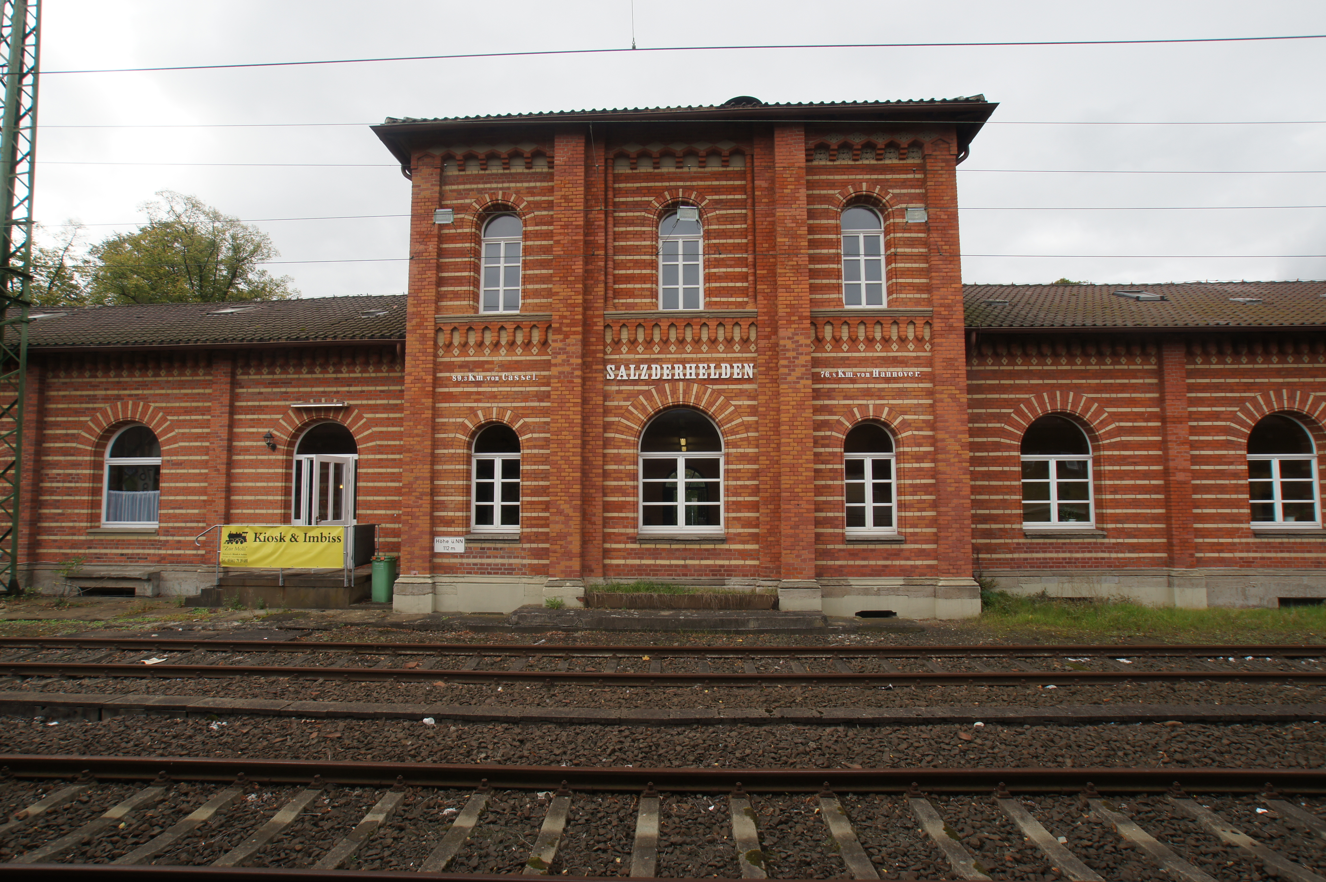 Einbeck (Salzderhelden), Germany: Railway station seen from the track